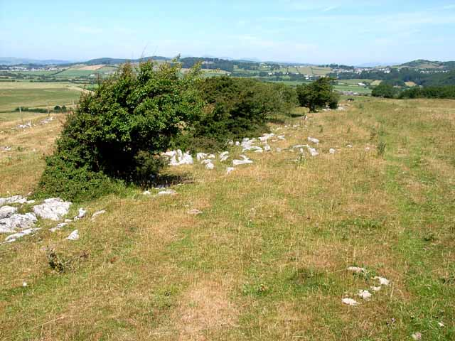 Humphrey Head. Humphrey Head is a limestone outcrop which juts into the sea at the entrance to the Kent estuary and is allegedly the place where the last wolf in England was killed in the 14th century. This shot is taken from north of the trig pillar looking inland towards the village of Allithwaite.